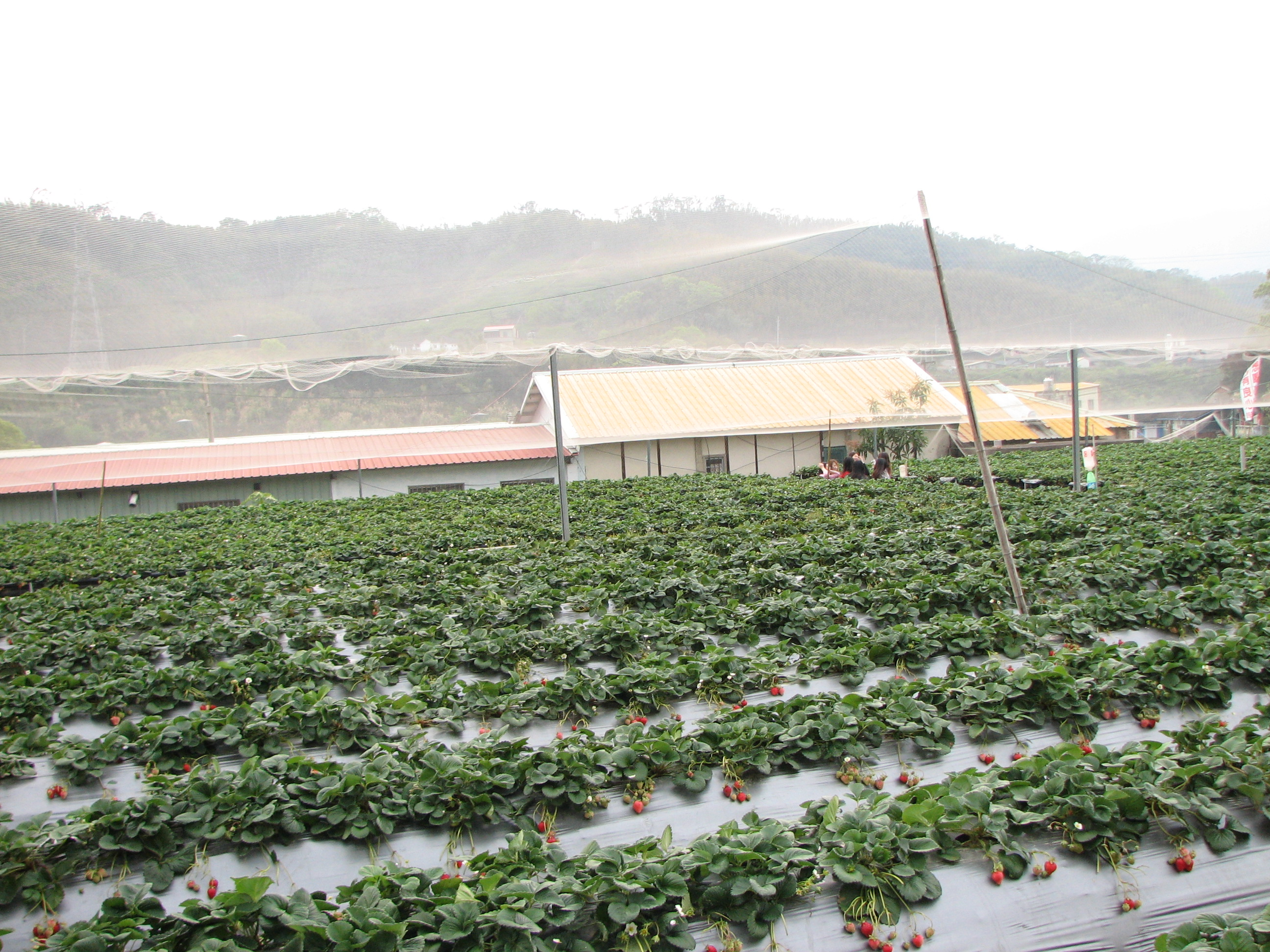 Strawberry farm in Dahu Township, Miaoli County, Taiwan.